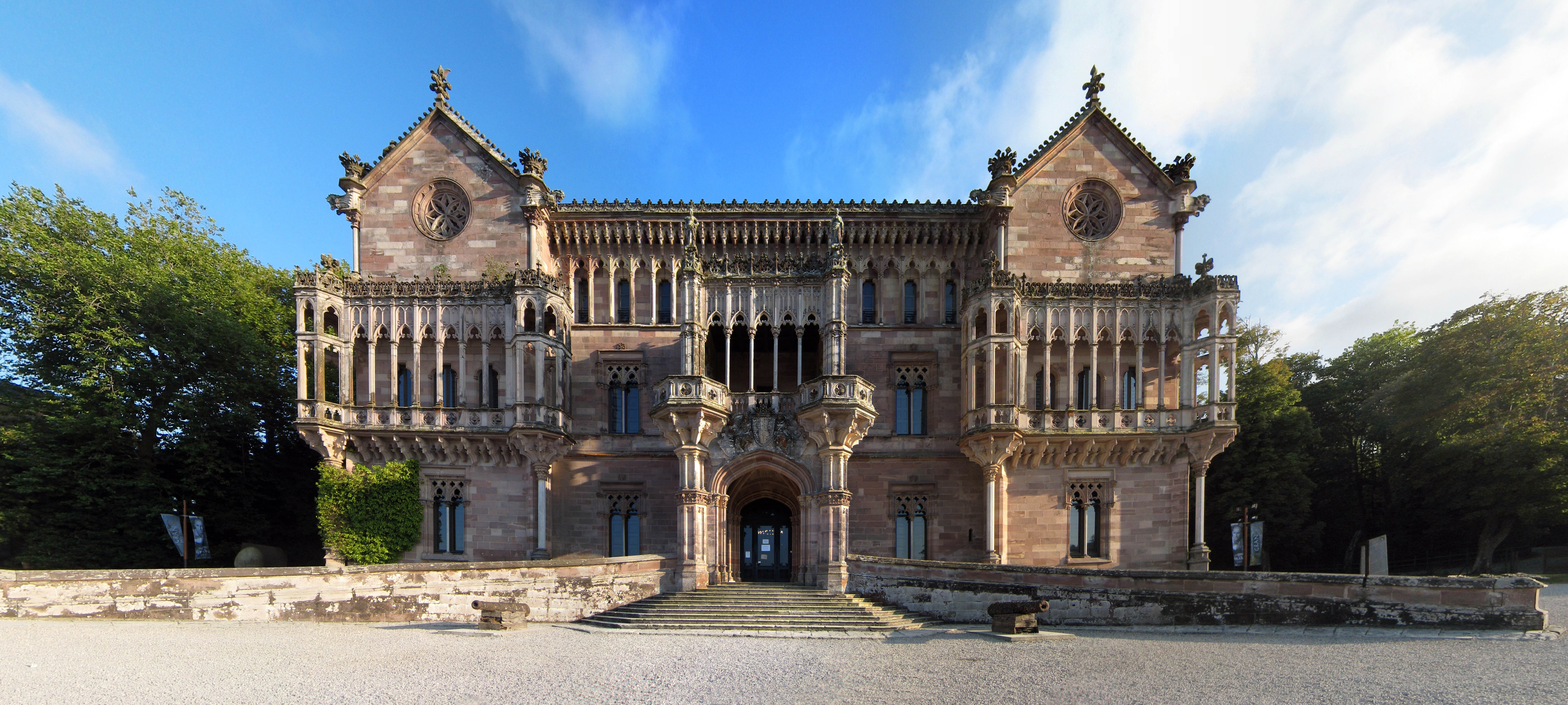 Palacio de Sobrellano, Comillas, Cantabria, Spain.